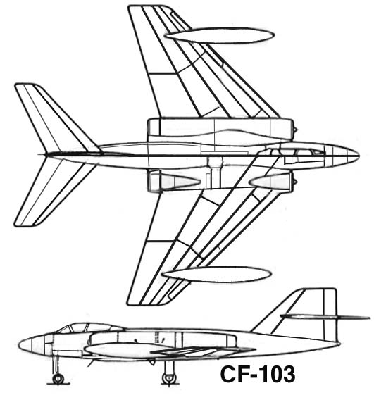 CF-103 drawing, showing original concept, December 1950.